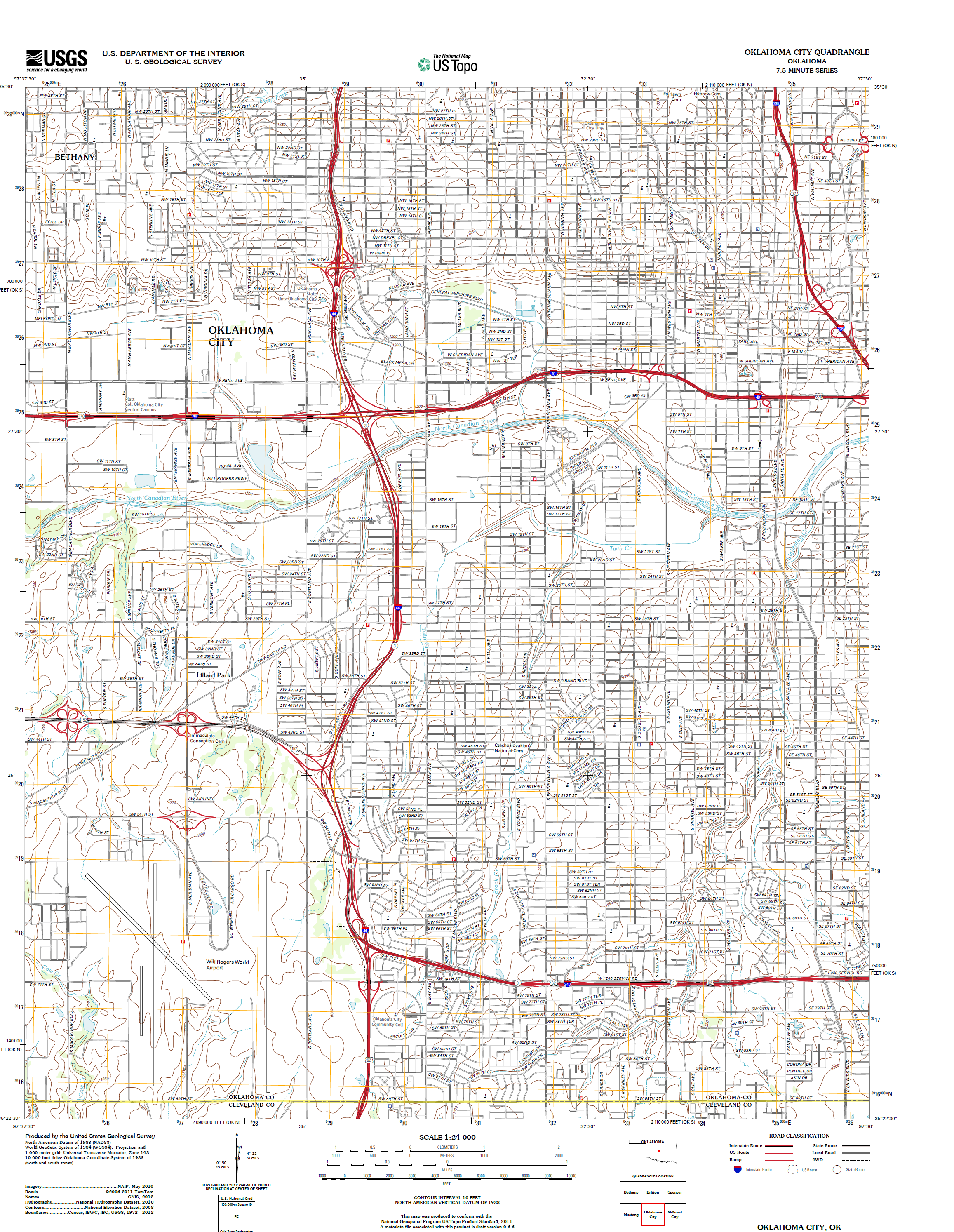 OKLAHOMA CITY, OK 2012 (ORTHOIMAGE LAYER OFF) 7.5 MINUTE SERIES QUADRANGLE (1:24,000–SCALE)